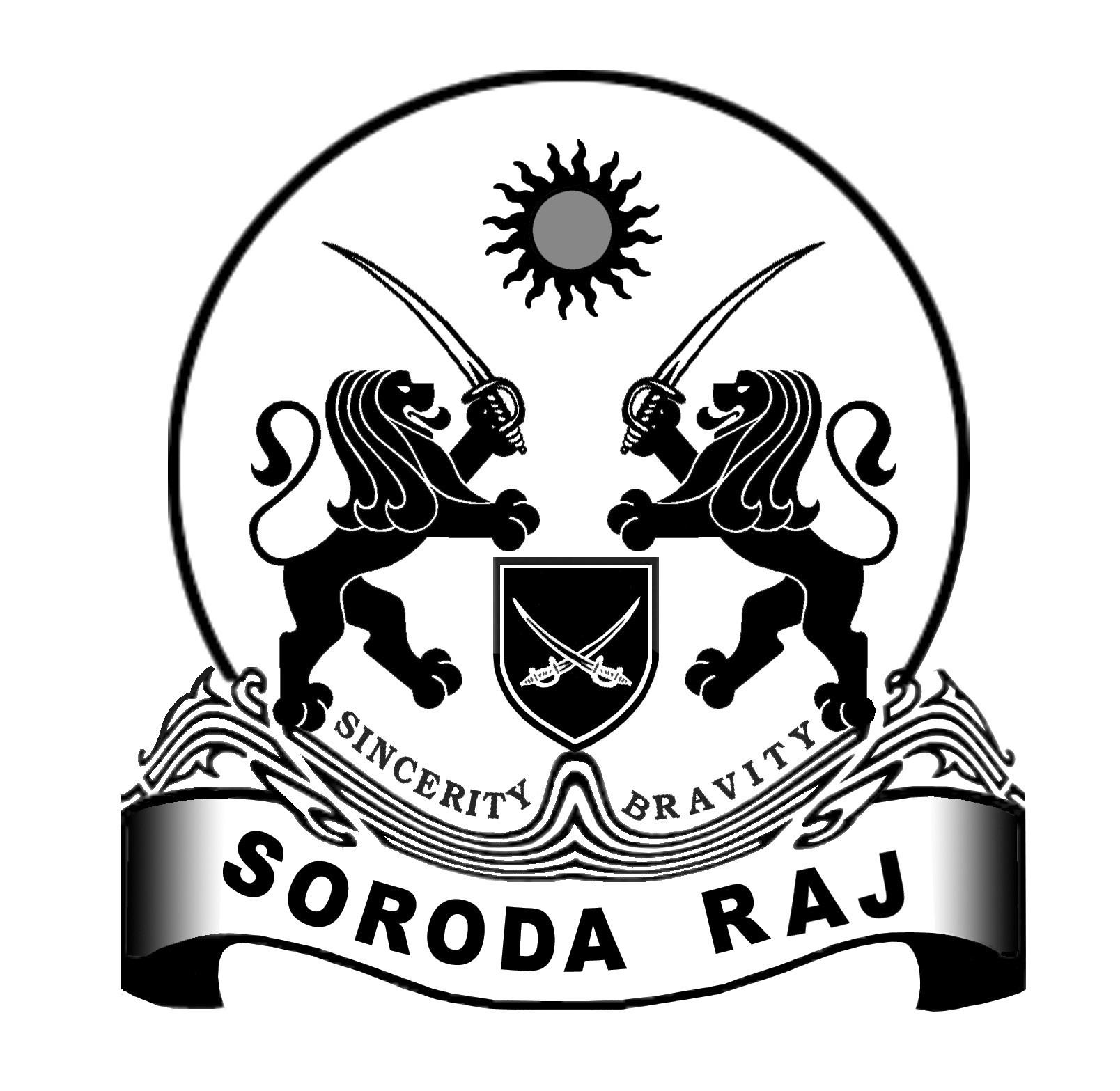 A copyright is not required for an image of the Emblem